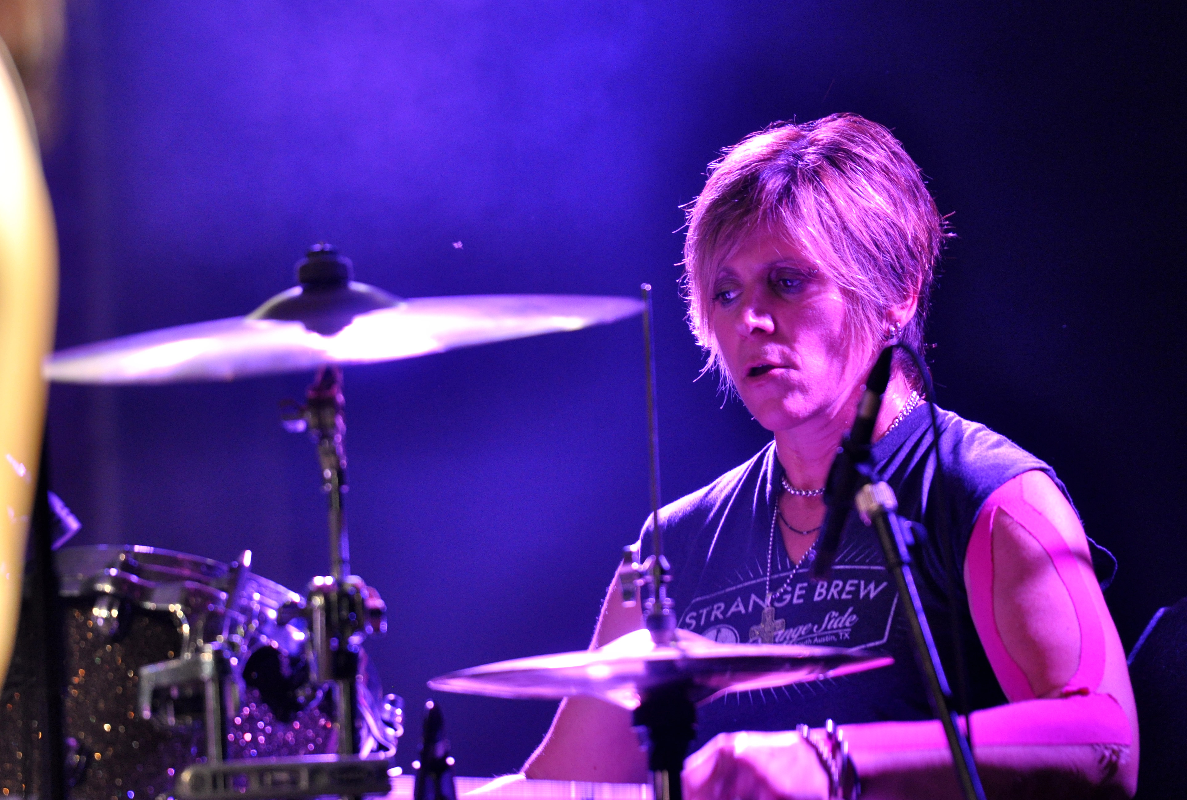 Antigone Rising (USA) appearance at the 2016 blacksheep festival at Bonfeld castle, Bad Rappenau, Baden-Wuerttemberg, Germany Festivalsommer This photo was created with the support of donations to Wikimedia Deutschland in the context of the CPB project "Festival Summer".